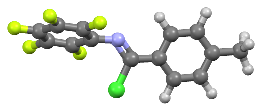 Structure of C6F5N=C(Cl)C6H4Me from T. D. Petrova, I. V. Kolesnikova, V. I. Mamatyuk, V. P. Vetchinov, V. E. Platonov, I. Yu. Bagryanskaya, Yu. V. Gatilov Izv. Akad. Nauk SSSR, Ser. Khim. (Russ.Chem.Bull.) 1993, 1605.